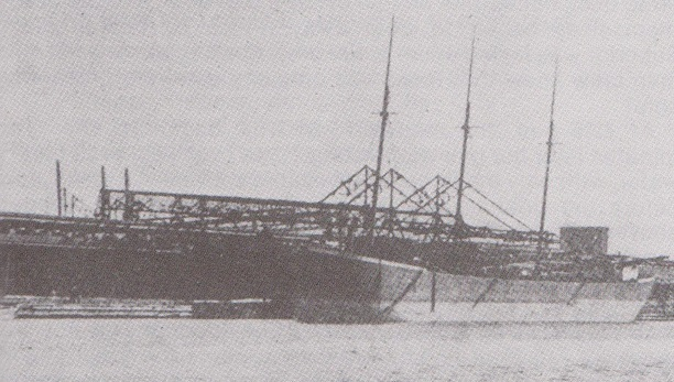 A photograph of the ship Pretoria, which sank in Lake Superior, near the Apostle Islands.